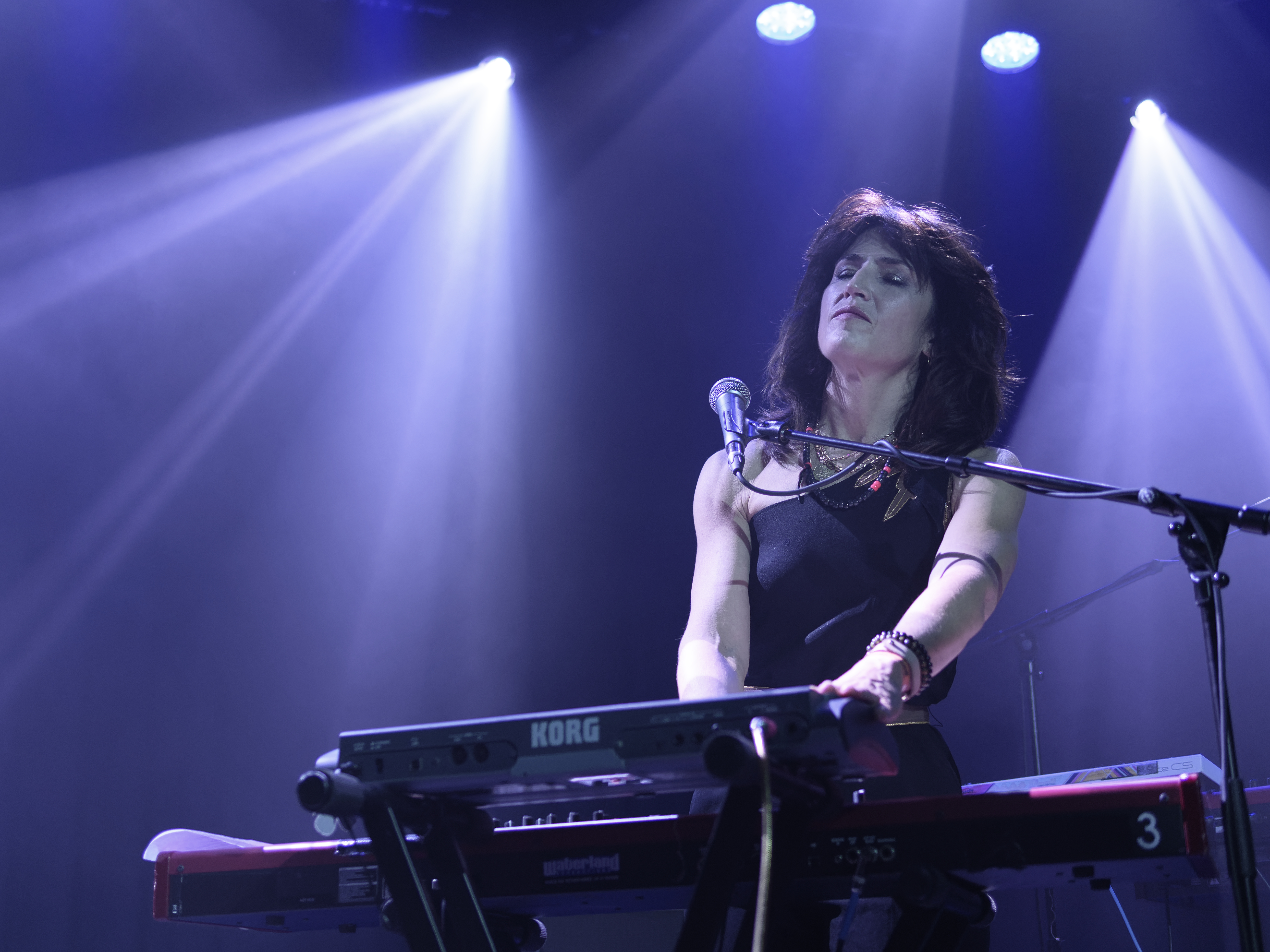 Joan As Police Woman Concert op 11 november 2018 in De Helling in Utrecht